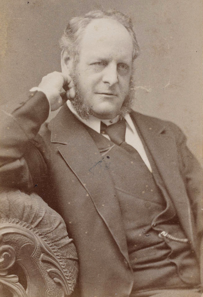 Sir Frederick Darley, Chief Justice of NSW and owner of Lilianfels, Katoomba